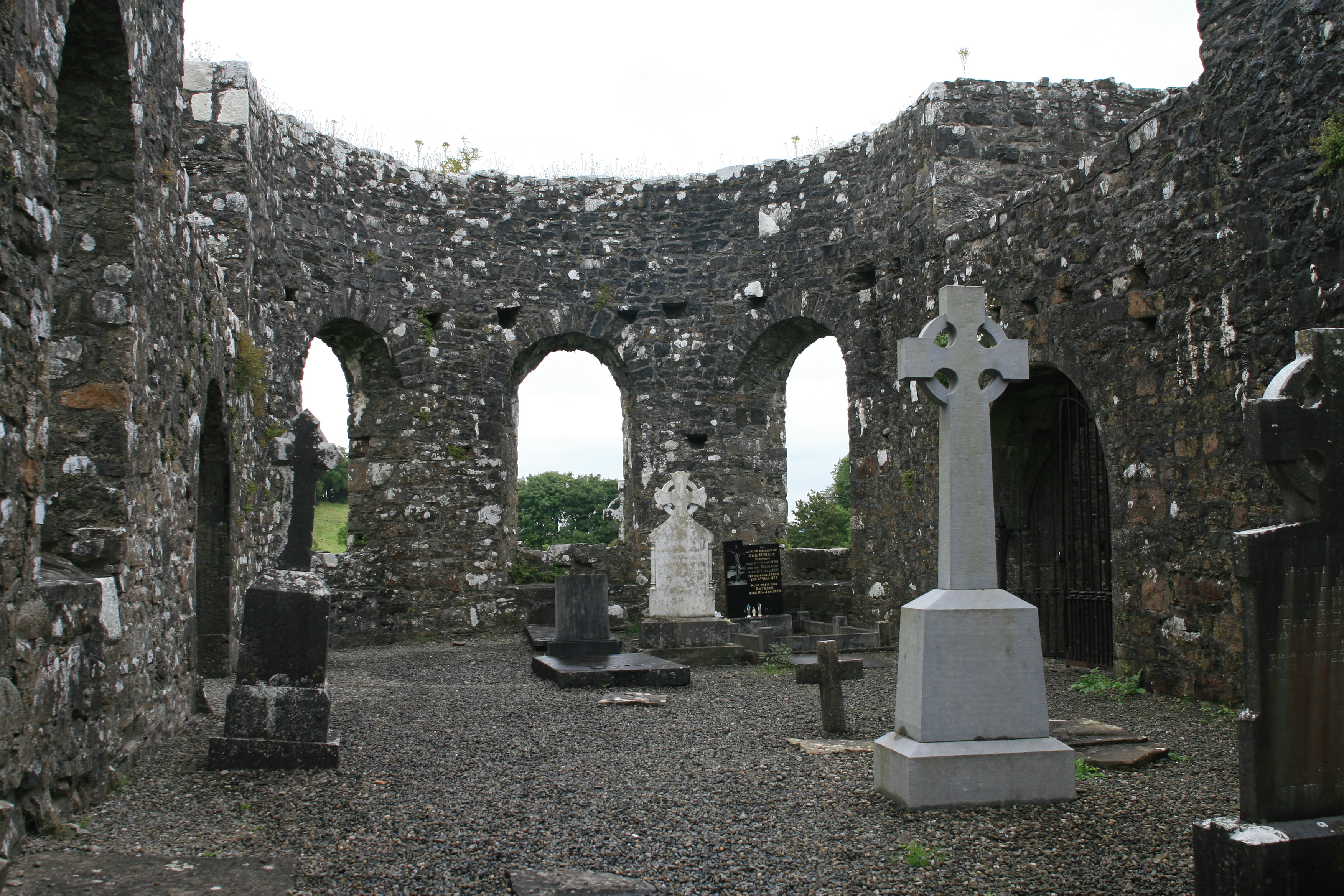 Turlough, County Mayo, Ireland Interior of the 18th-century church.